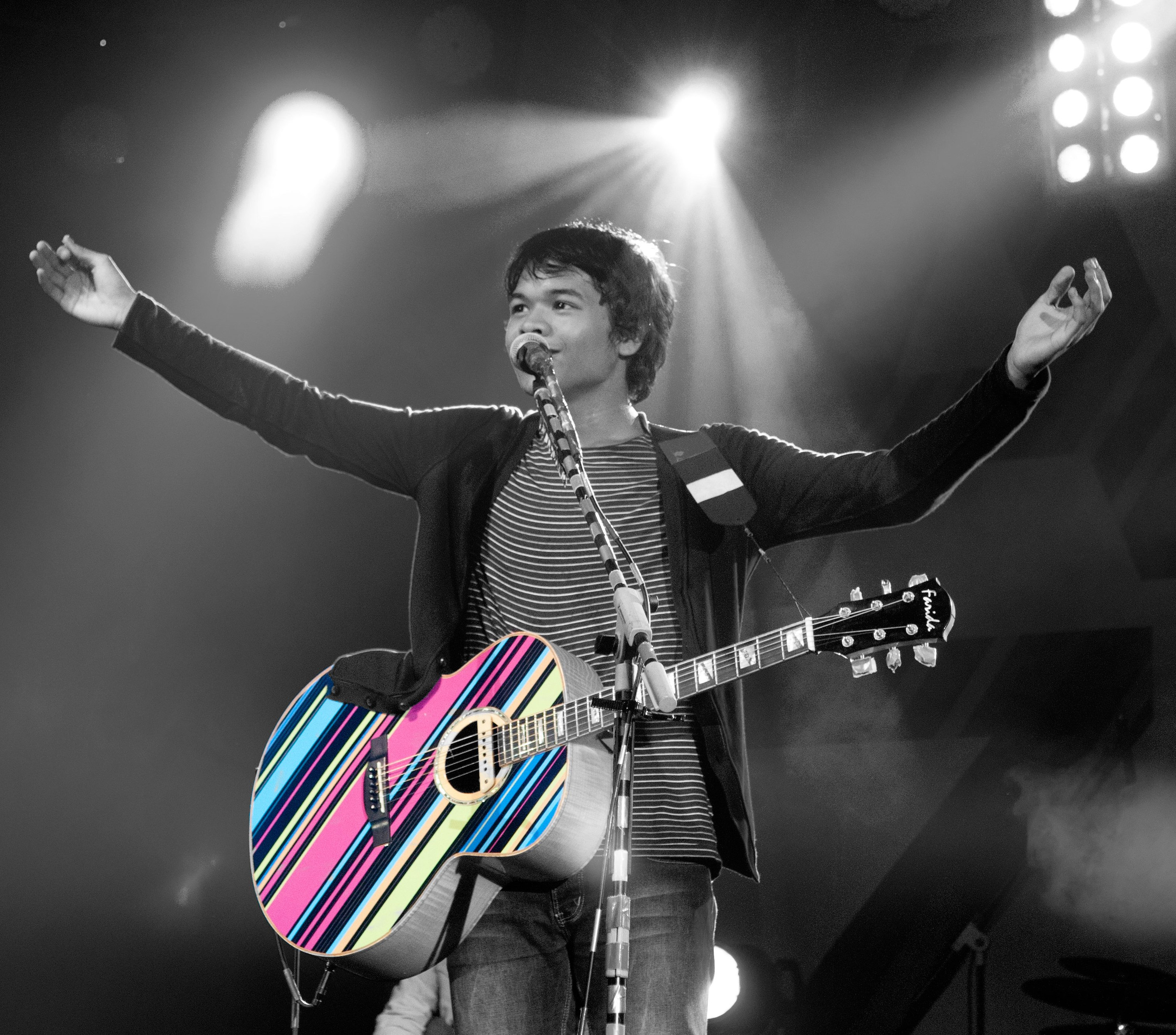 Aizat Amdan - Borneo Tour 2011, Kota Kinabalu Sabah